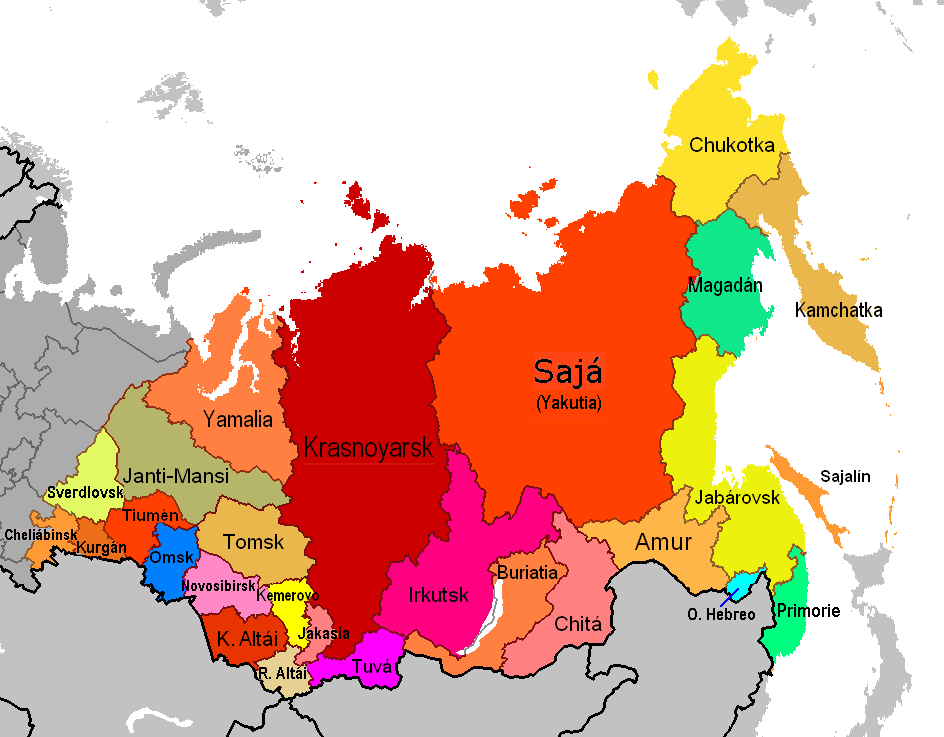 Federal subjects of Siberia